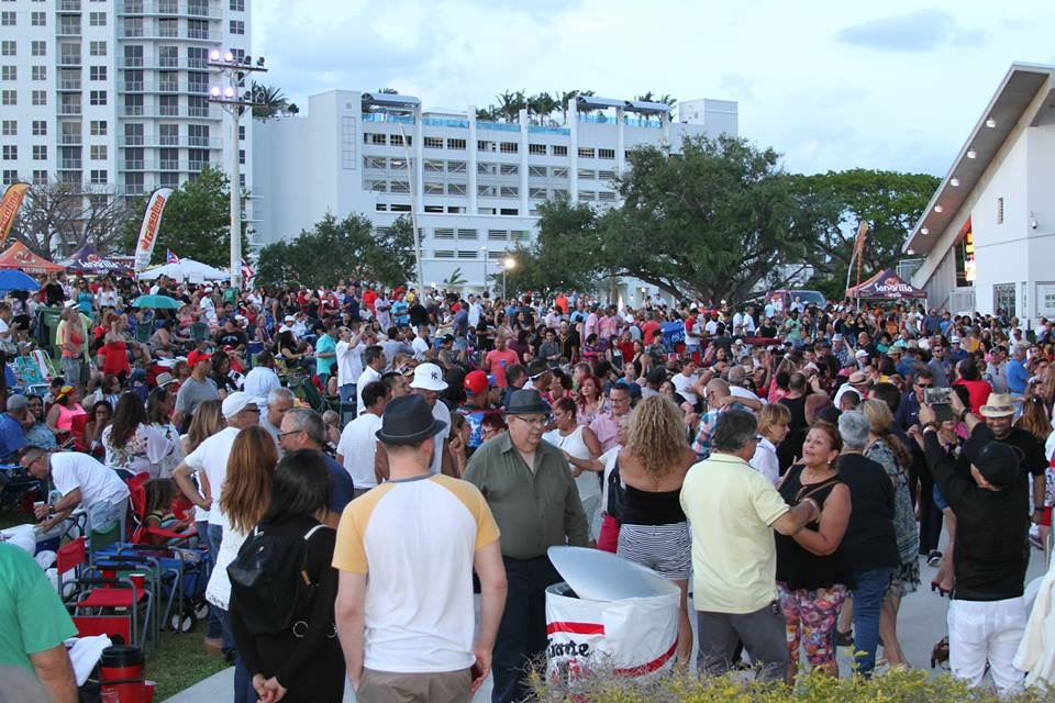 Crowd getting ready for HSF5 Arts Park at Young Circle